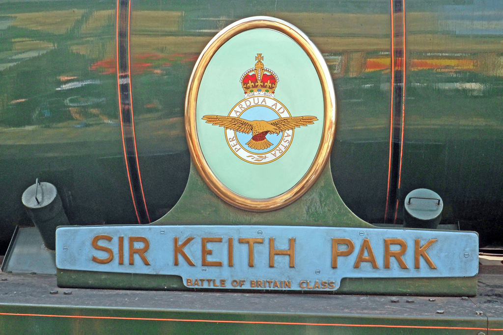 Battle of Britain SR 4-6-2 34053 "Sir Keith Park" nameplate on loco at Severn Valley Railway in 2012